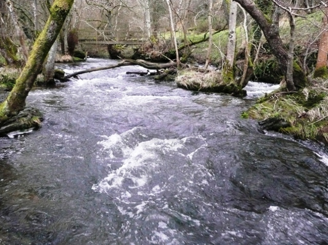 Nant Bachawy The river is swollen from heavy rains. The footpath should cross here, but is impassable. Fortunately there is a bridge just upstream, accessible from the bridleway not the footpath.